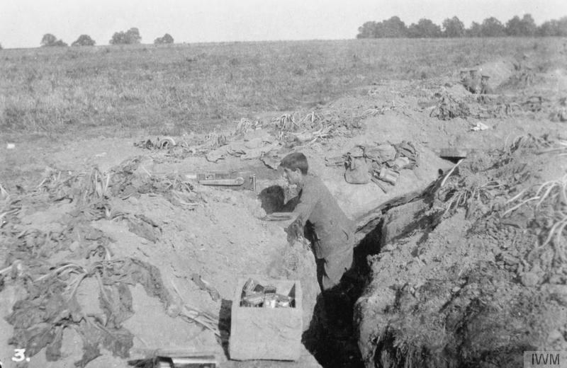 The First Battle of the Aisne, September 1914 Troops of the 1st Battalion, Cameronians (Scottish Rifles) in the front trench at St. Marguerite, 24th September 1914.